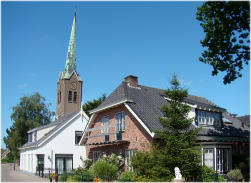 Village of Hoogmade